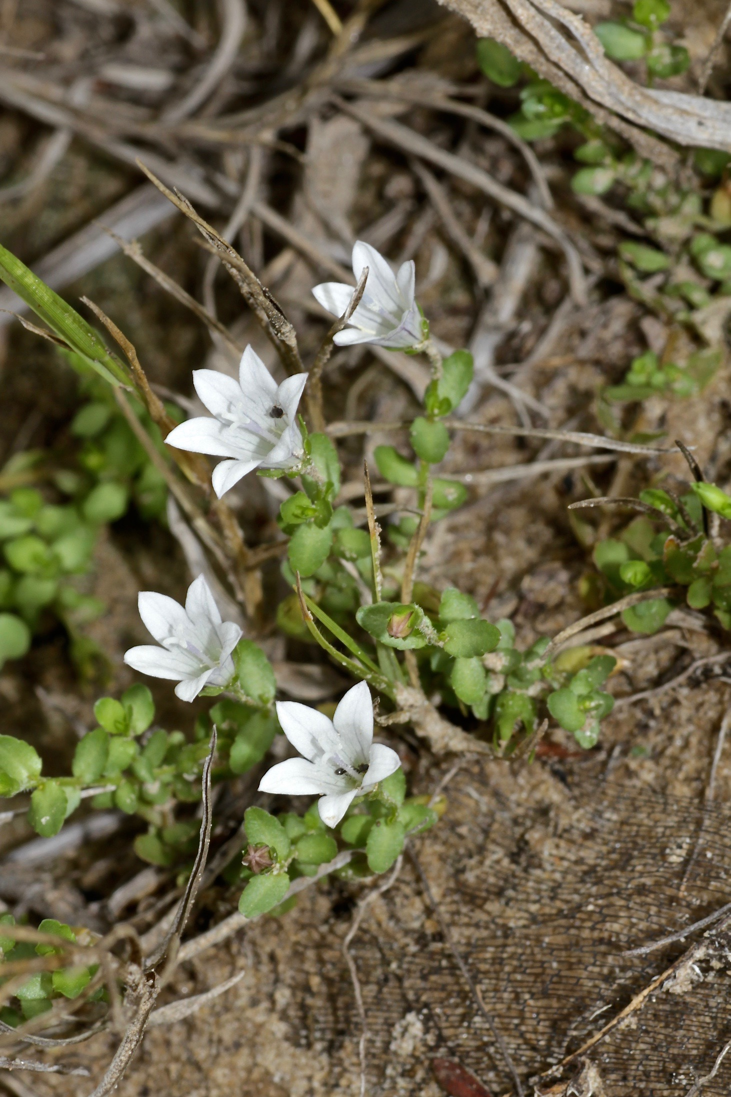 South Africa. Bontebok National Park.